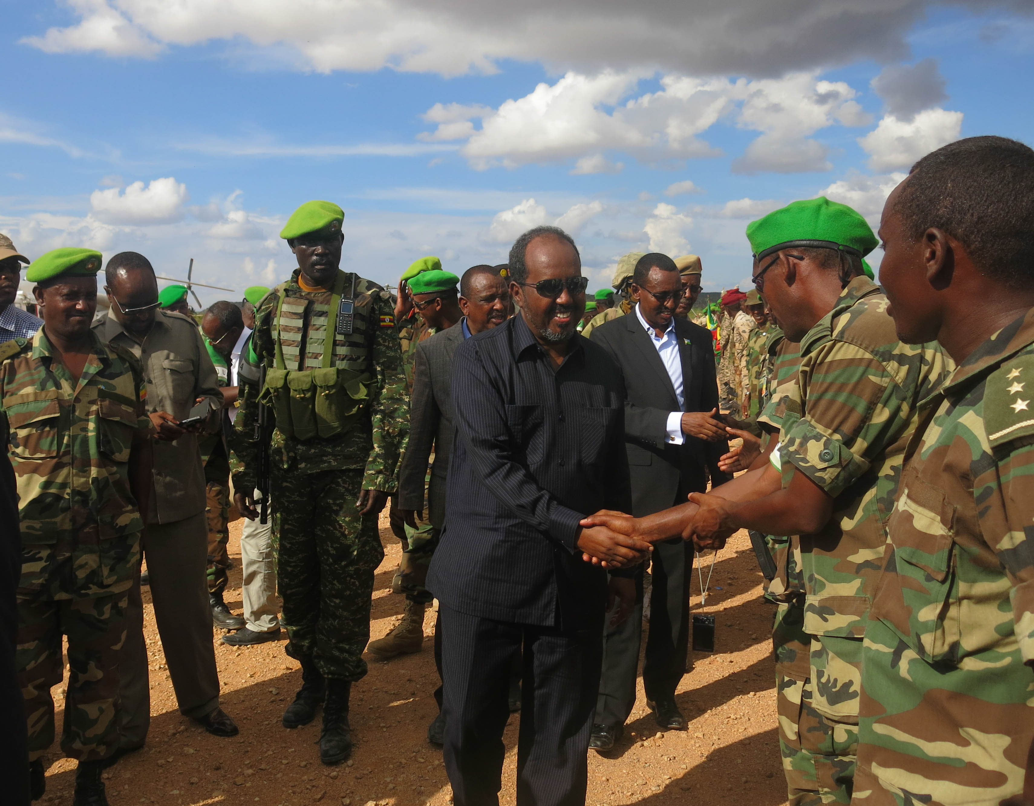 Somali President Hassan Sheik Mohamud shakes hand with AMISOM officials during his visit in Belet Weyne capital city of Hiran region on October 23rd, 2014. AU/UN IST Photo / Ismail Hassan